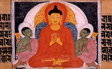 Painting of the Buddha's first discourse, turning the Dharmacakra. Sanskrit Astasahasrika Prajnaparamita Sutra manuscript written in the Ranjana script. Nalanda, Bihar, India. Circa 700-1100 CE.